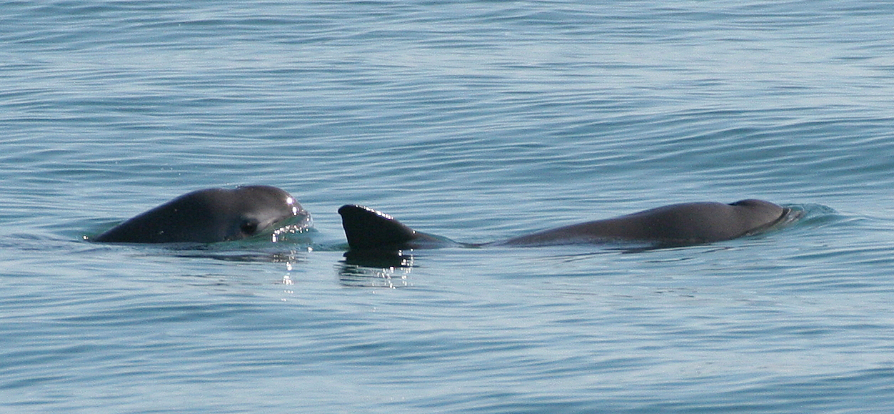 Two vaquitas. The vaquita (Phocoena sinus) is a critically endangered porpoise species endemic to the northern part of the Gulf of California. It is considered the smallest and most endangered cetacean in the world. Vaquita photo taken under permit (Oficio No. DR/488/08) from the Secretaria de Medio Ambiente y Recursos Naturales (SEMARNAT), within a natural protected area subject to special management and decreed as such by the Mexican Government. The original NOAA image has been modified by cropping.